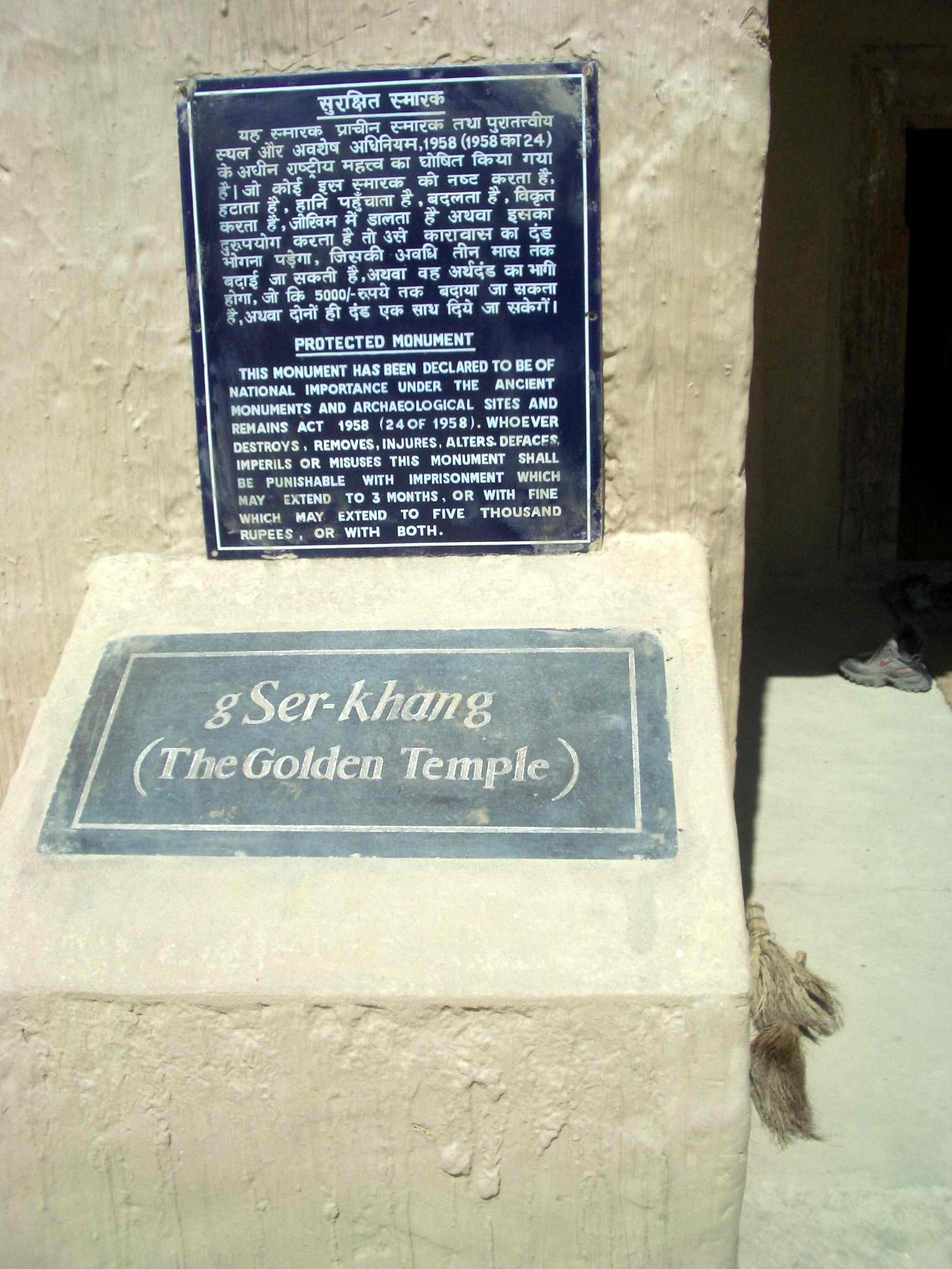 I took this photo myself at Tabo in 2004